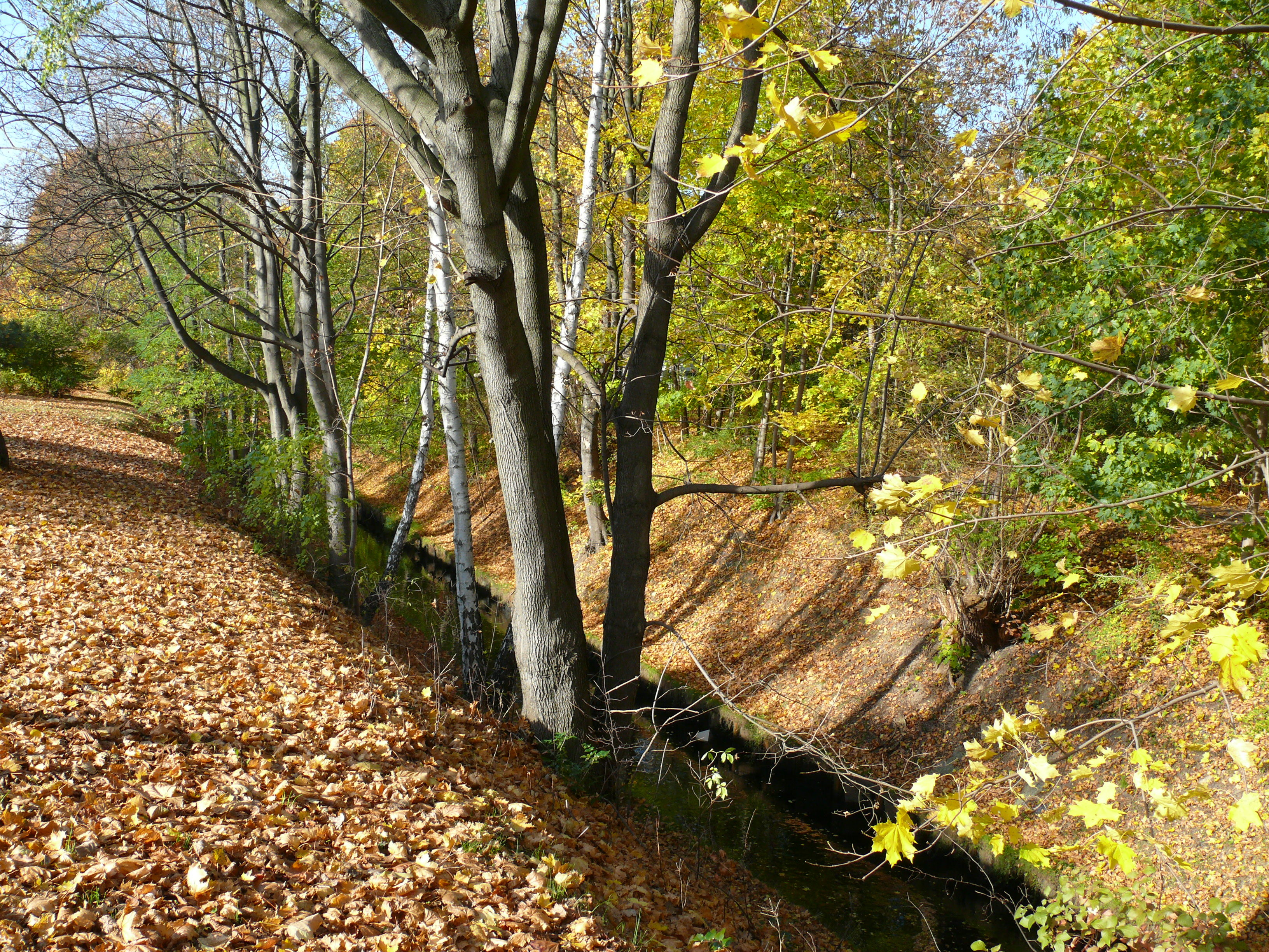 Berlin-Wittenau Am Nordgraben